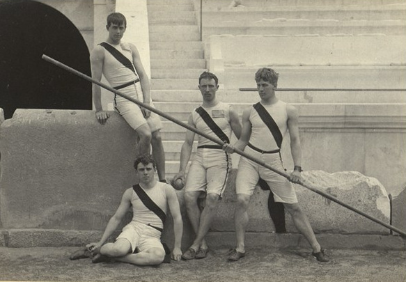 Princeton University at 1896 Summer Olympics